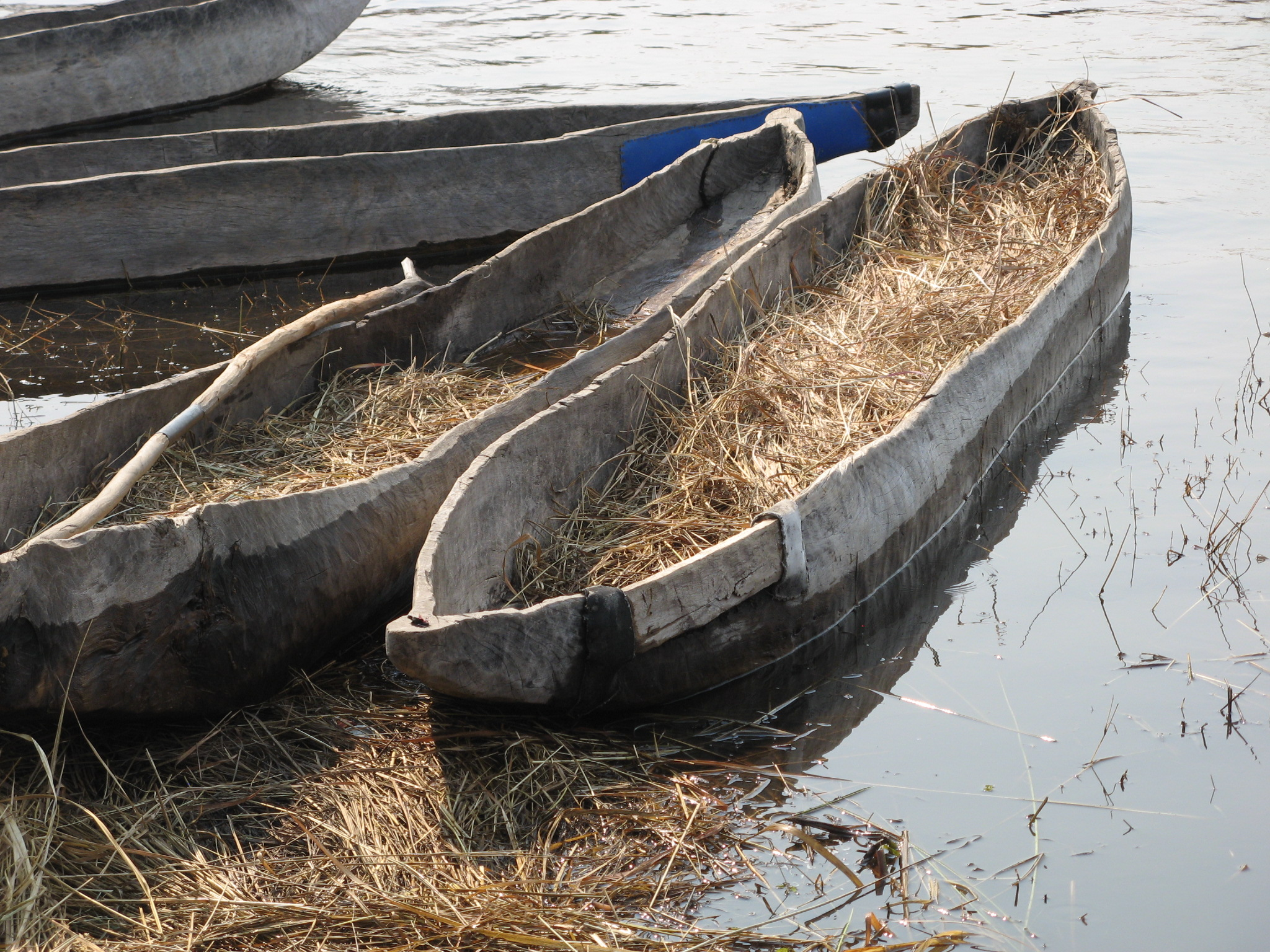 "Makoro" - dugout canoes in the Okavango Delta region, Botswana